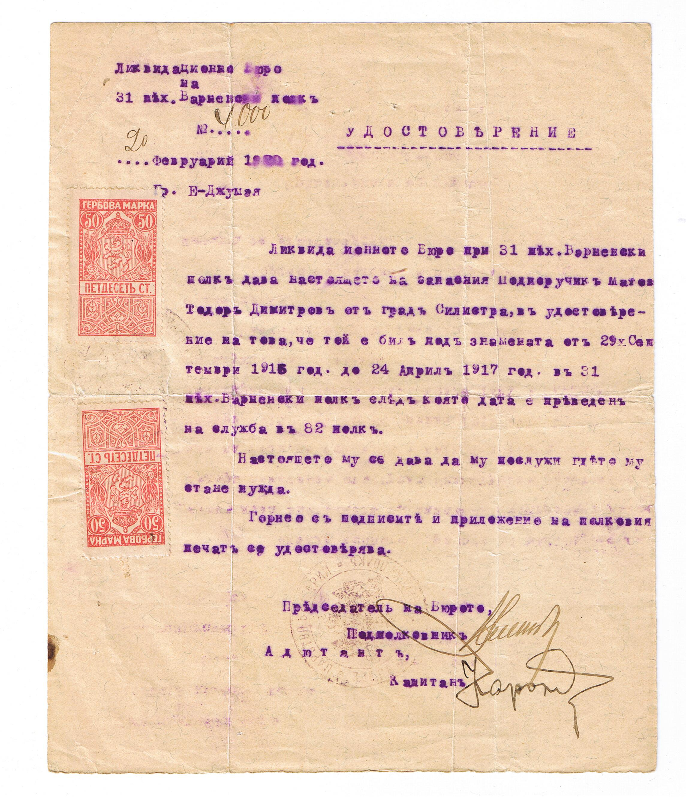 Certificate for service in the 31 Varna Regiment.